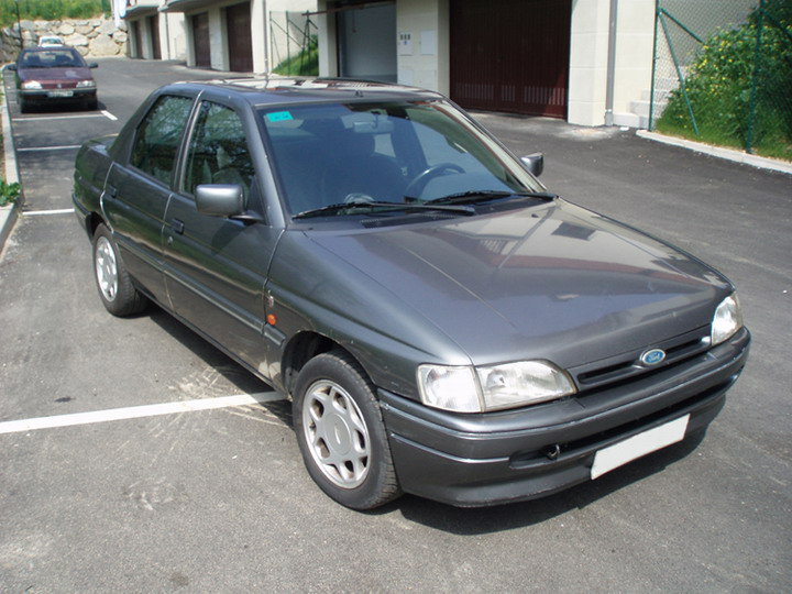 1991 Ford Orion, front